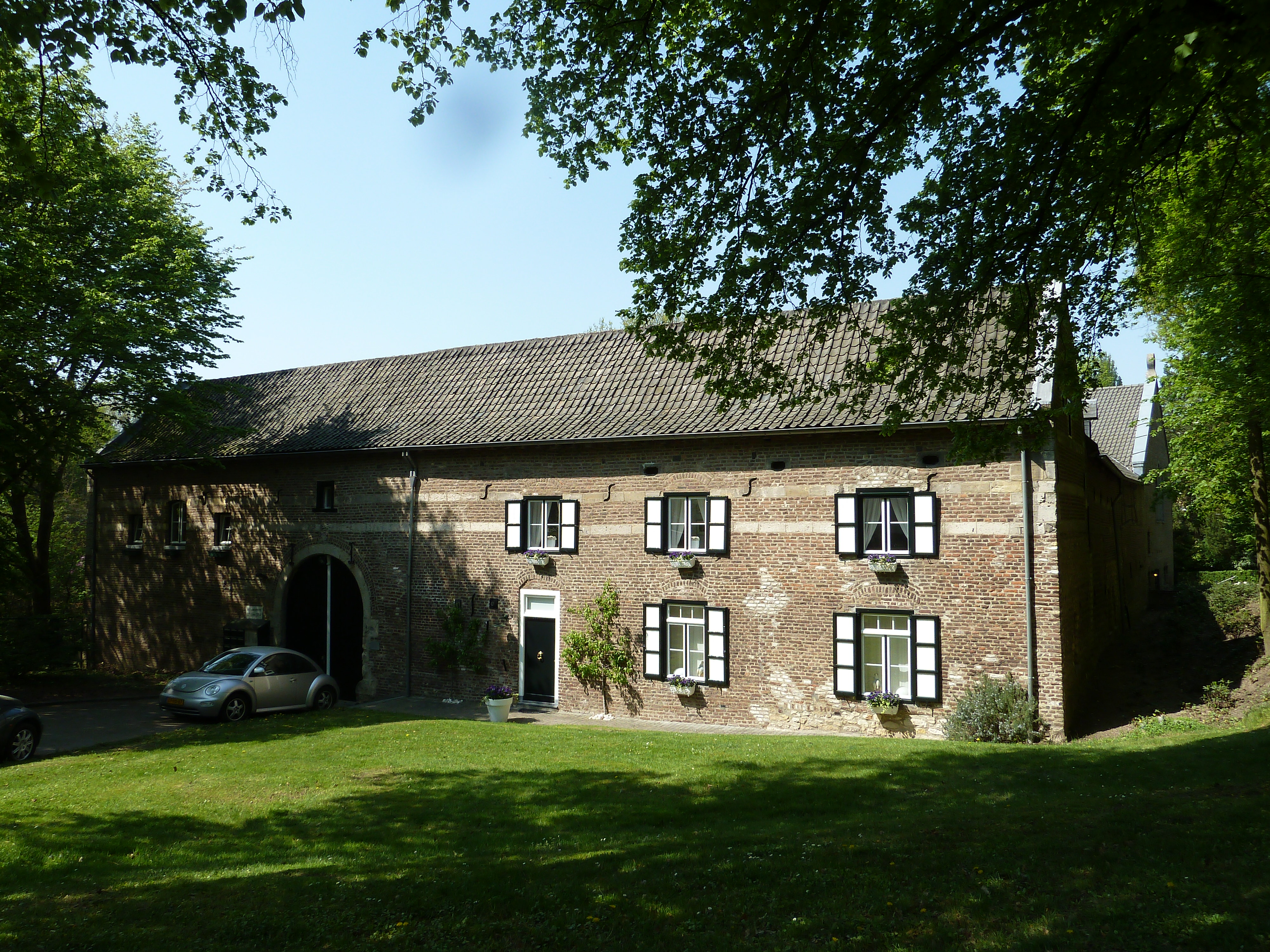 Caumermolenweg 37, Heerlen, Limburg, the Netherlands